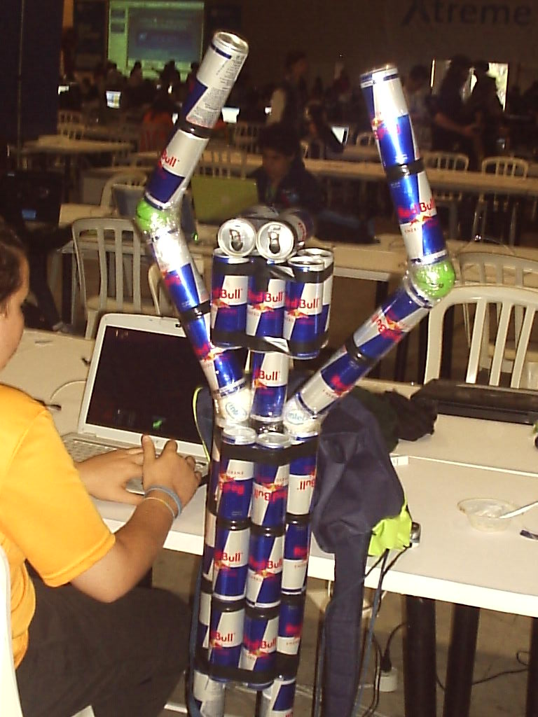 Red Bulls' Robot